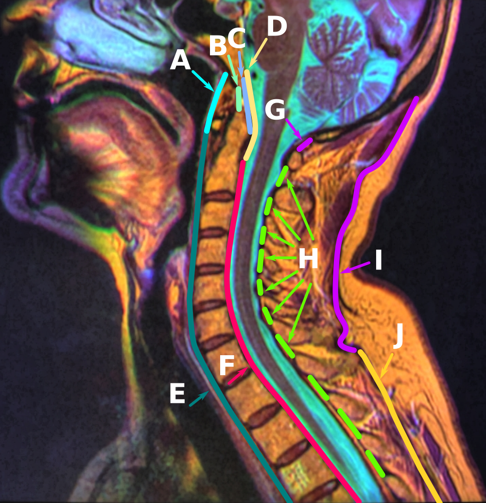 Anatomy of neck ligaments, A: Anterior atlantooccipital membrane, B: Apical ligament of dens, C: Cruciate ligament of atlas, D: Tectorial membrane of atlanto-axial joint, E: Anterior longitudinal ligament, F: Posterior longitudinal ligament, G: Posterior atlantoaxial ligament, H: Ligamenta flava, I:Nuchal ligament , J: Supraspinous ligament